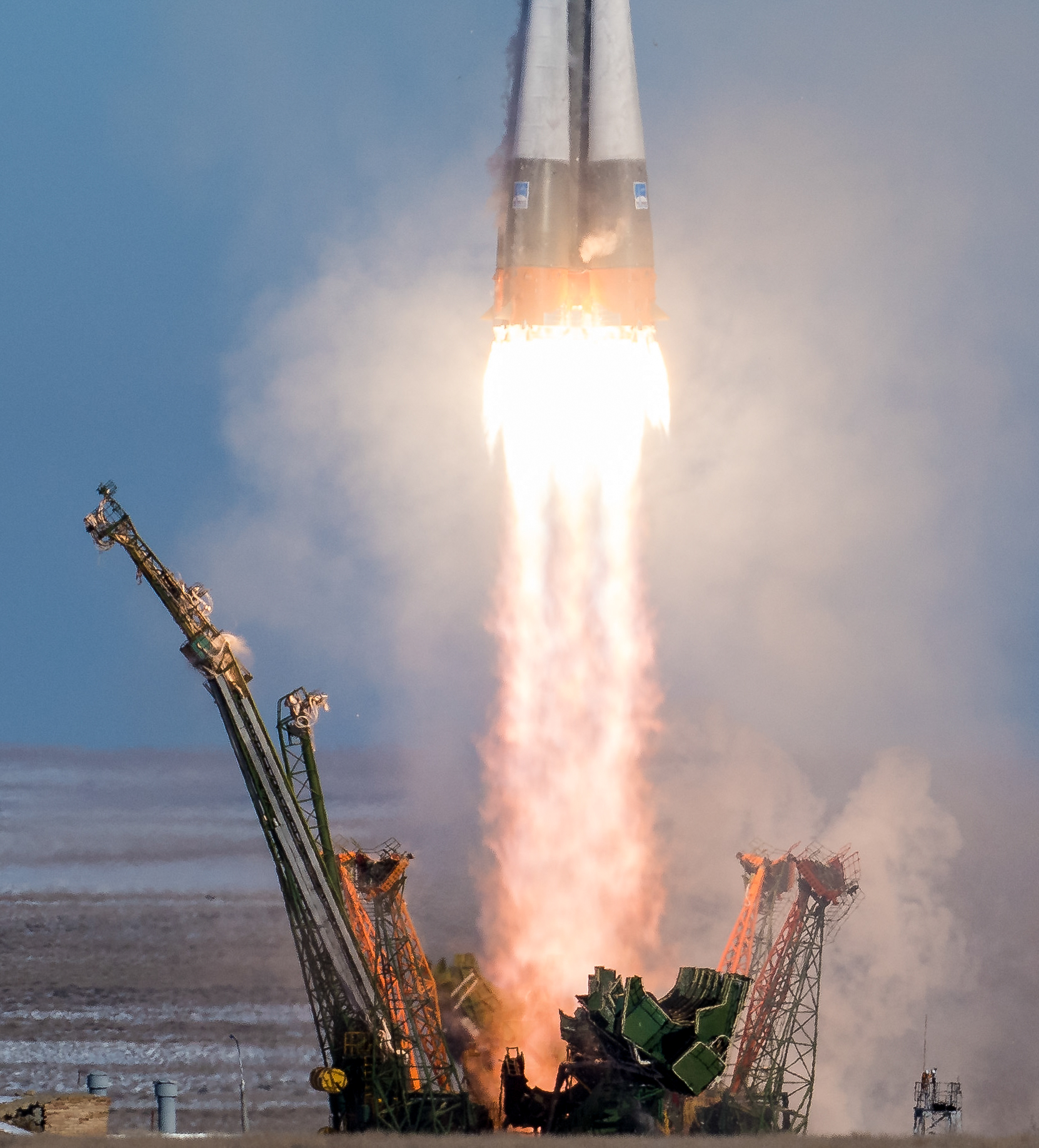 The Soyuz MS-07 rocket is launched with Expedition 54 Soyuz Commander Anton Shkaplerov of Roscosmos, flight engineer Scott Tingle of NASA, and flight engineer Norishige Kanai of Japan Aerospace Exploration Agency (JAXA), Sunday, Dec. 17, 2017 at the Baikonur Cosmodrome in Kazakhstan. Shkaplerov, Tingle, and Kanai will spend the next five months living and working aboard the International Space Station. Photo Credit: (NASA/Joel Kowsky)